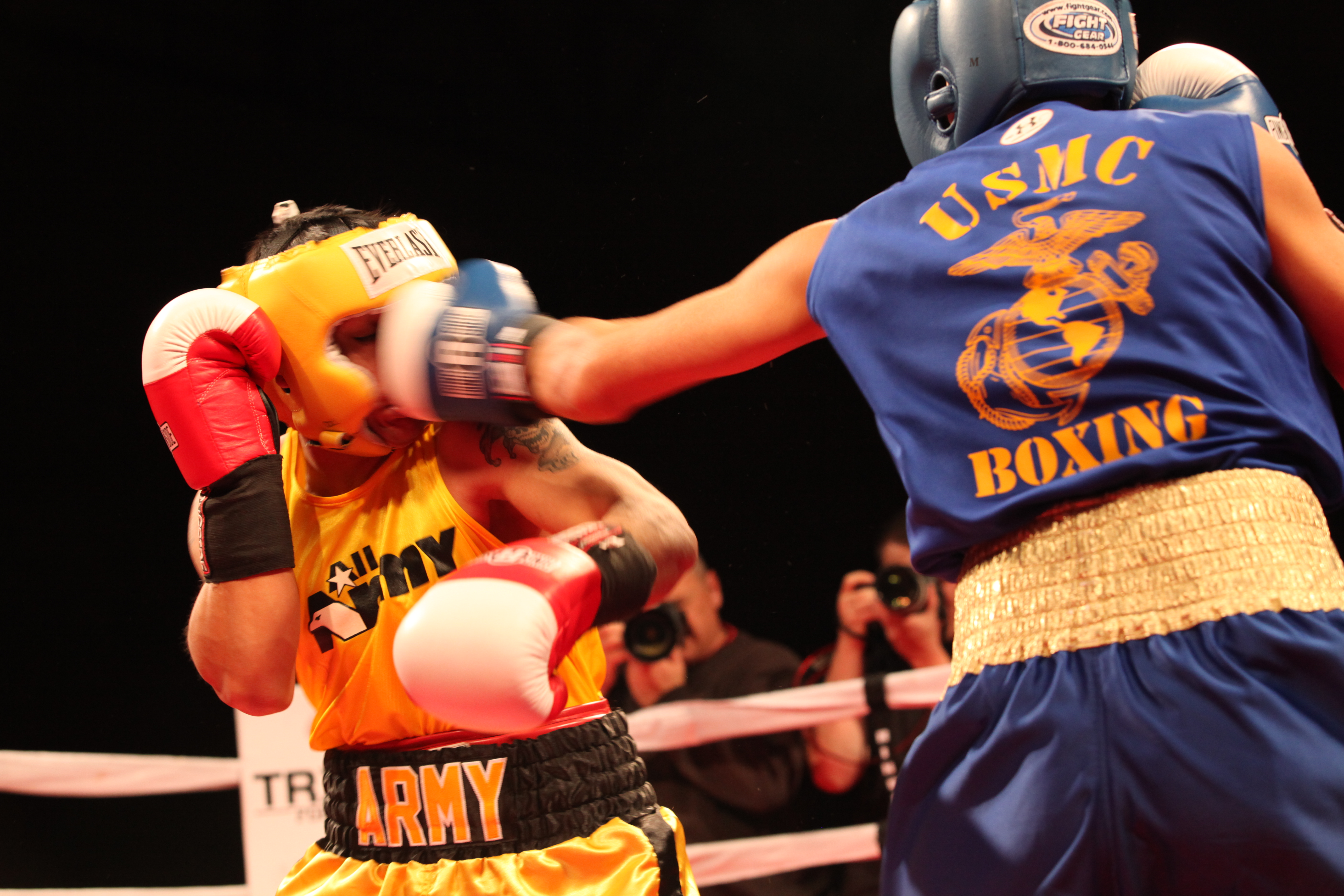 Cpl. Tommy Roque connects with a solid jab, followed by a victory against his opponent Army Sgt. Toribio Ramirez at the 2012 Armed Forces Boxing Championship at Paige Fieldhouse Feb. 3.